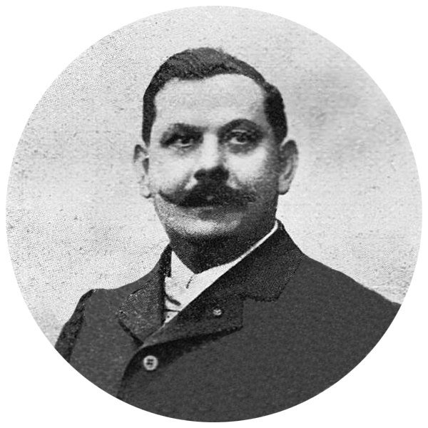 French lyricist and composer Léon Garnier circa 1890